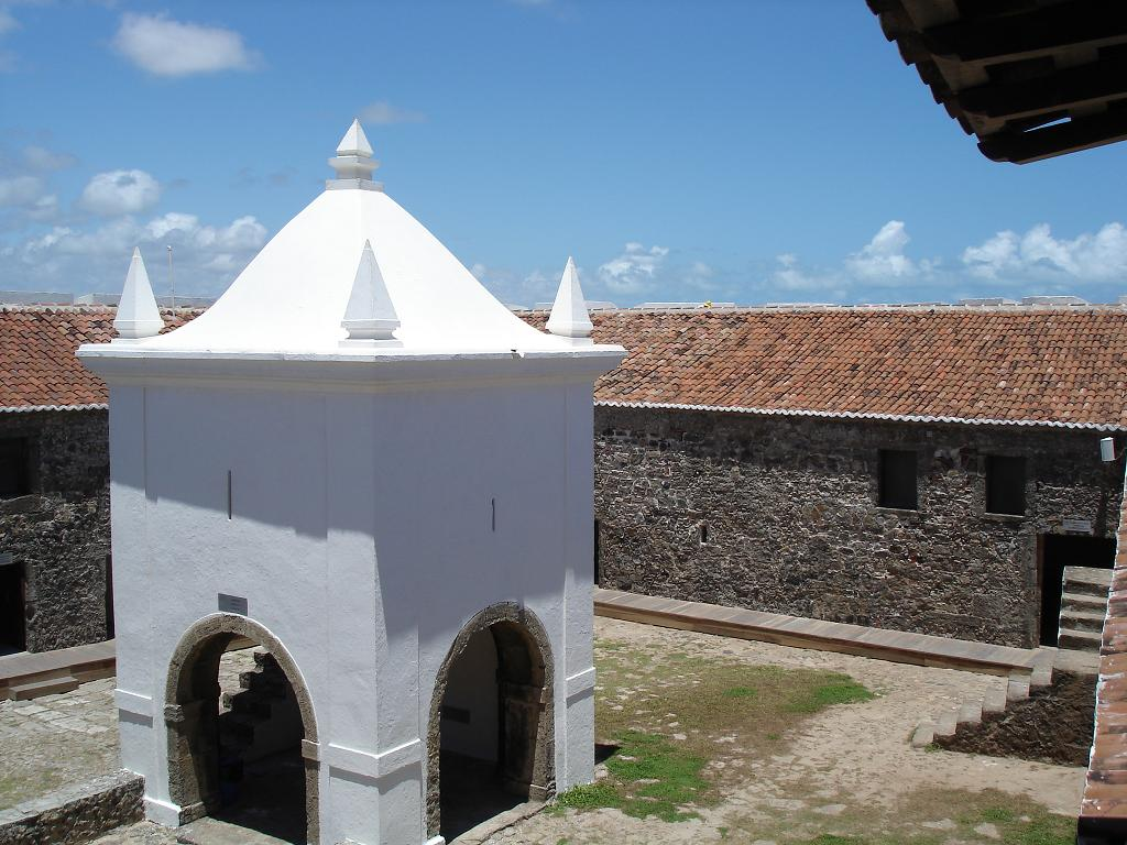 Courtyard of Reis Magos Fortress in Natal, Brazil